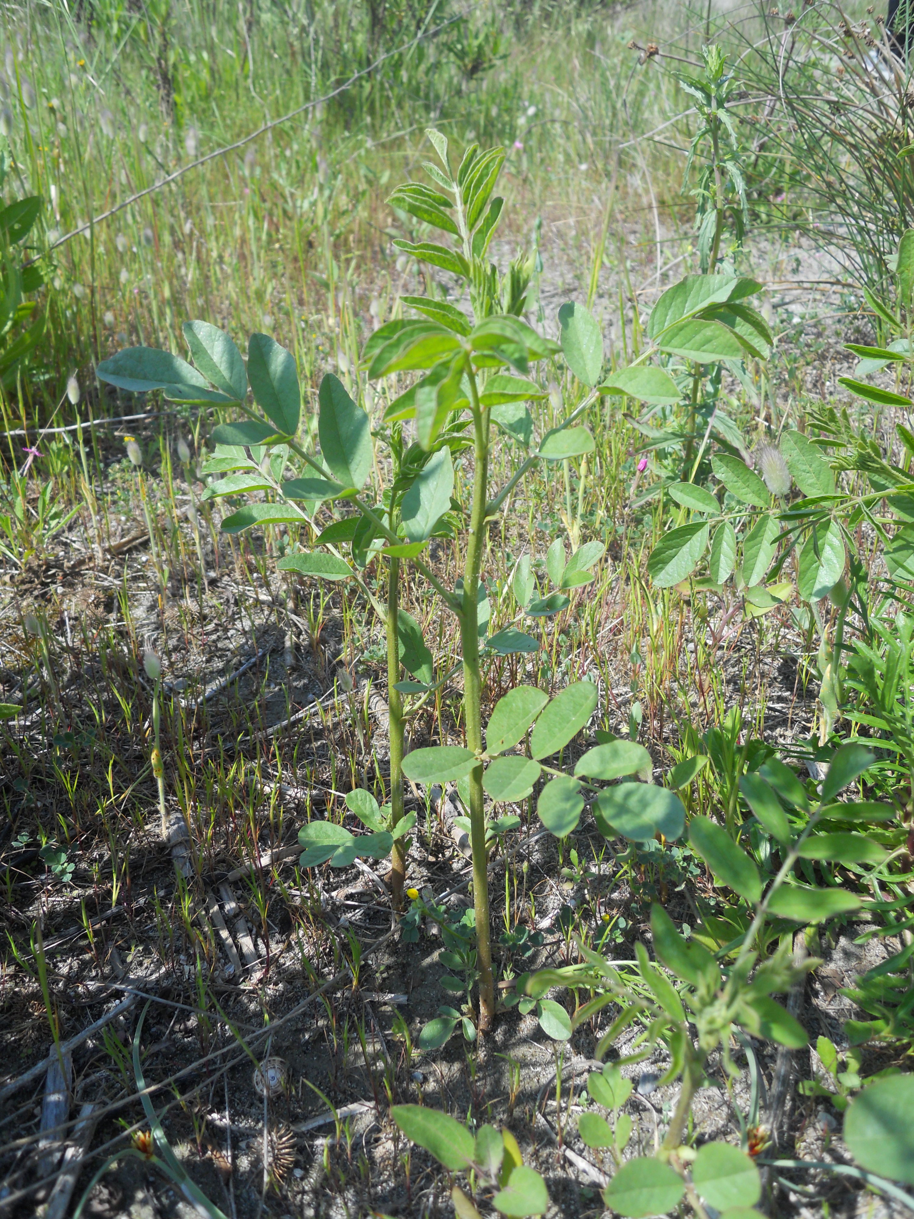 Liquorice plant - Bosco Pantano Natural Park, Policoro (Basilicata, Italy)